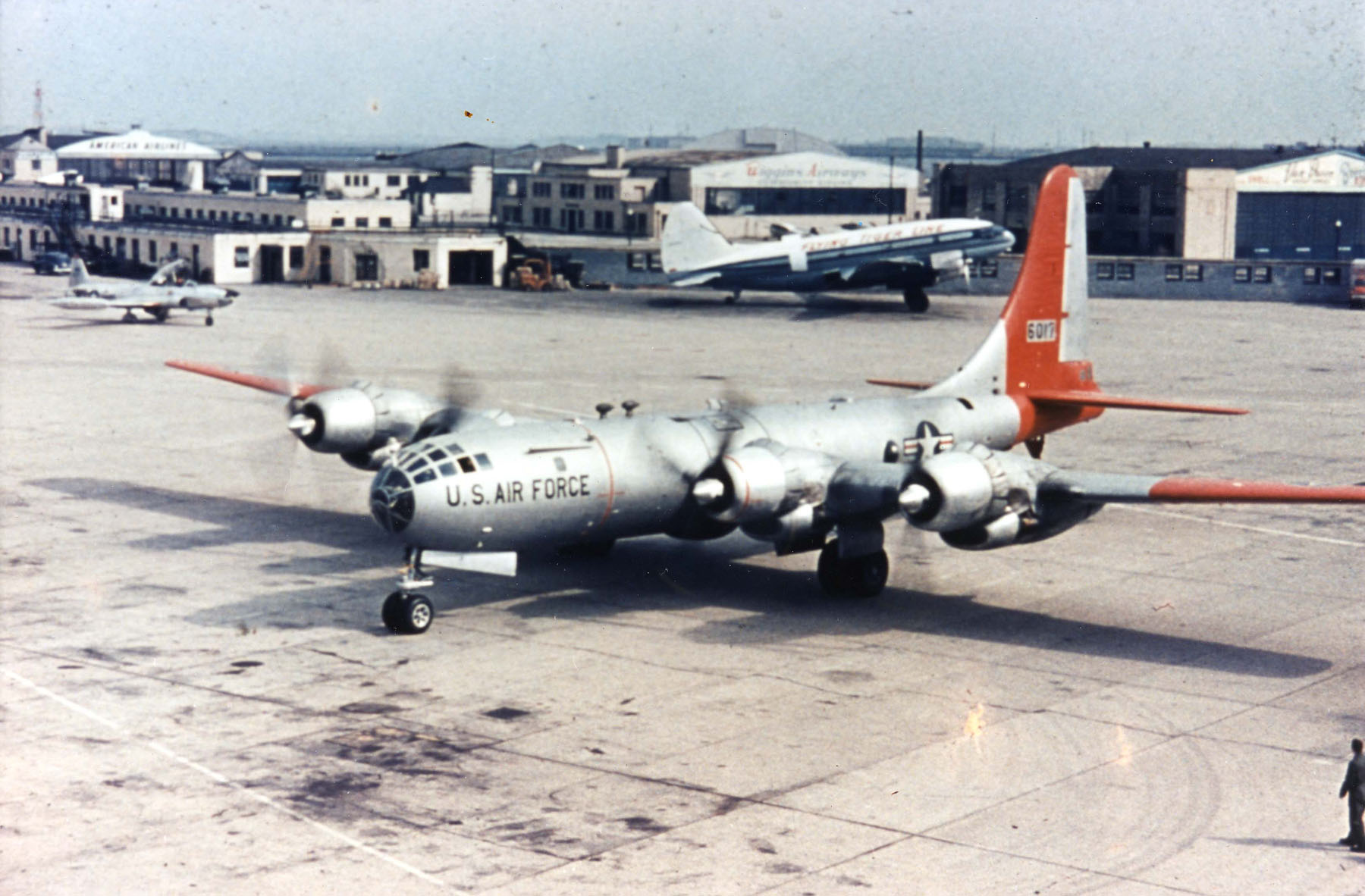 Boeing JB-50A-10-BO